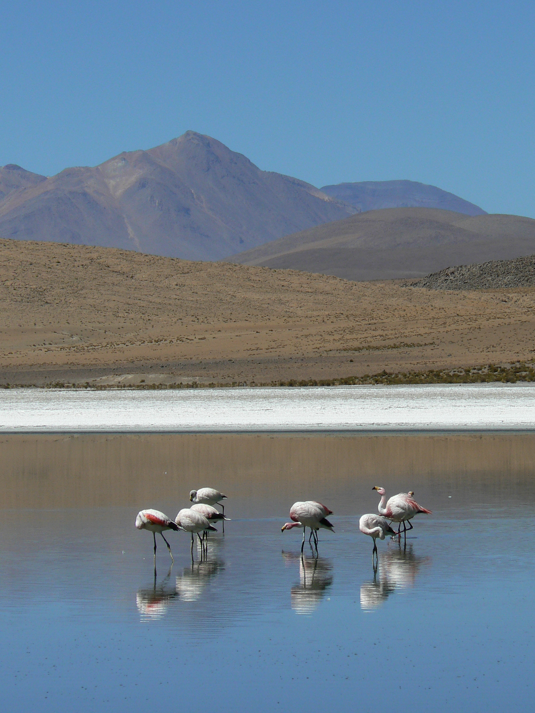 James's Flamingos (Phoenicoparrus jamesi) and Andean Flamingos (Phoenicoparrus andinus) at Laguna Cañapa, a lake in the Potosí Department, Bolivia.